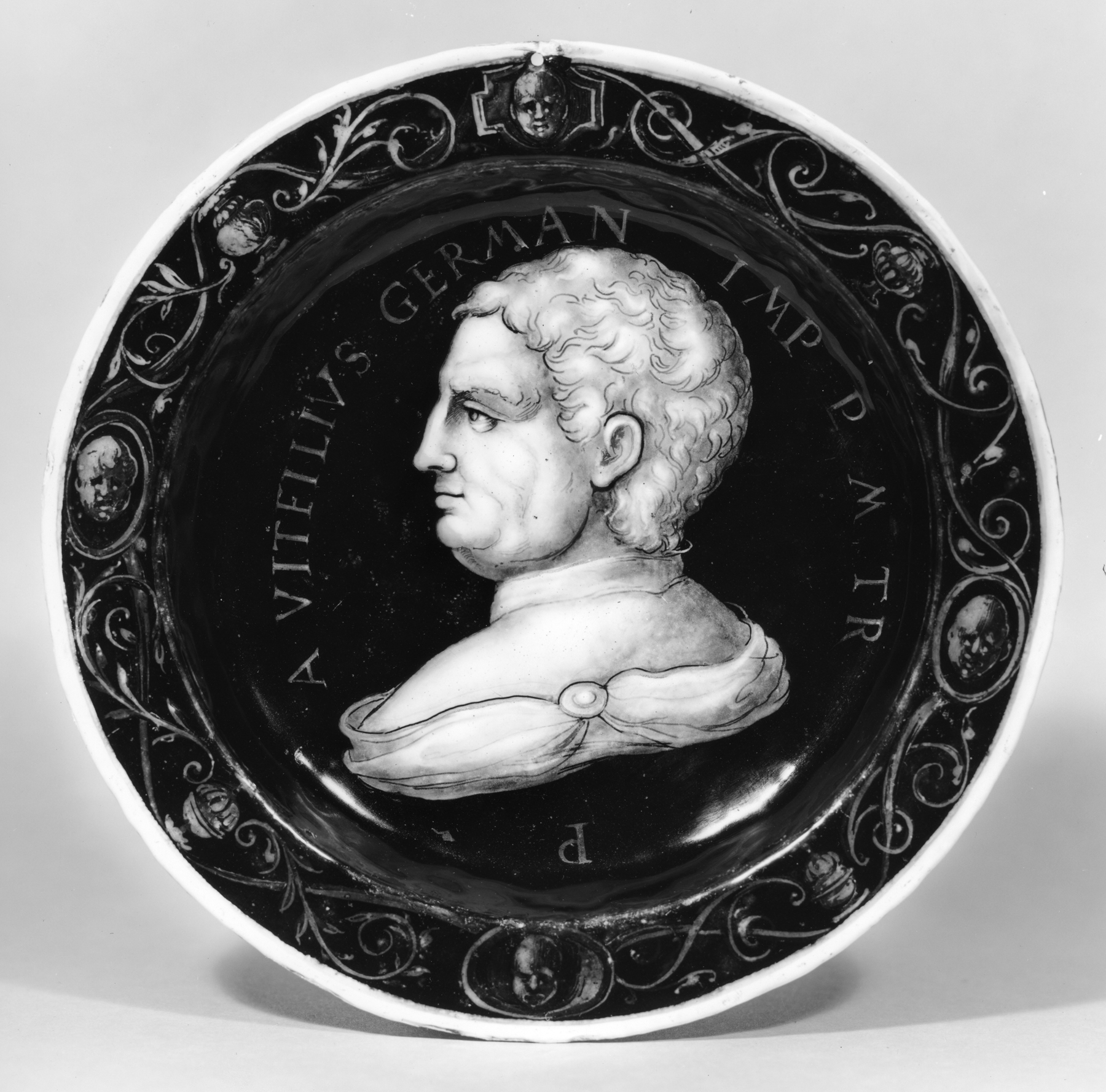 In the well of the circular plate is painted the bust portrait of the Roman Emperor Vitellius in left profile, copied from an engraving (which itself was derived from a sculpture, rather than from a numismatic type). Possibly the inscription was an afterthought, because it is not concentric with the periphery of the well of the plate, in addition to it being misspelled. However, it was certainly gilt and fired at the time that the plate was enameled. The P of P[ontifex] is provided with the long bar found in the stamps of the Pénicaud workshop, used at the time it was under the direction of Jean Pénicaud II. The border is composed of gilt scrolls with alternating masks and vases in gold "camaïeu." The enameller copied a print by Marcantonio Raimondi, one of a series of the Twelve Caesars. The back of the plate depicts a trefoiled ornament with three masks and sprays, and, in the border, light scrollwork designed in grisaille.